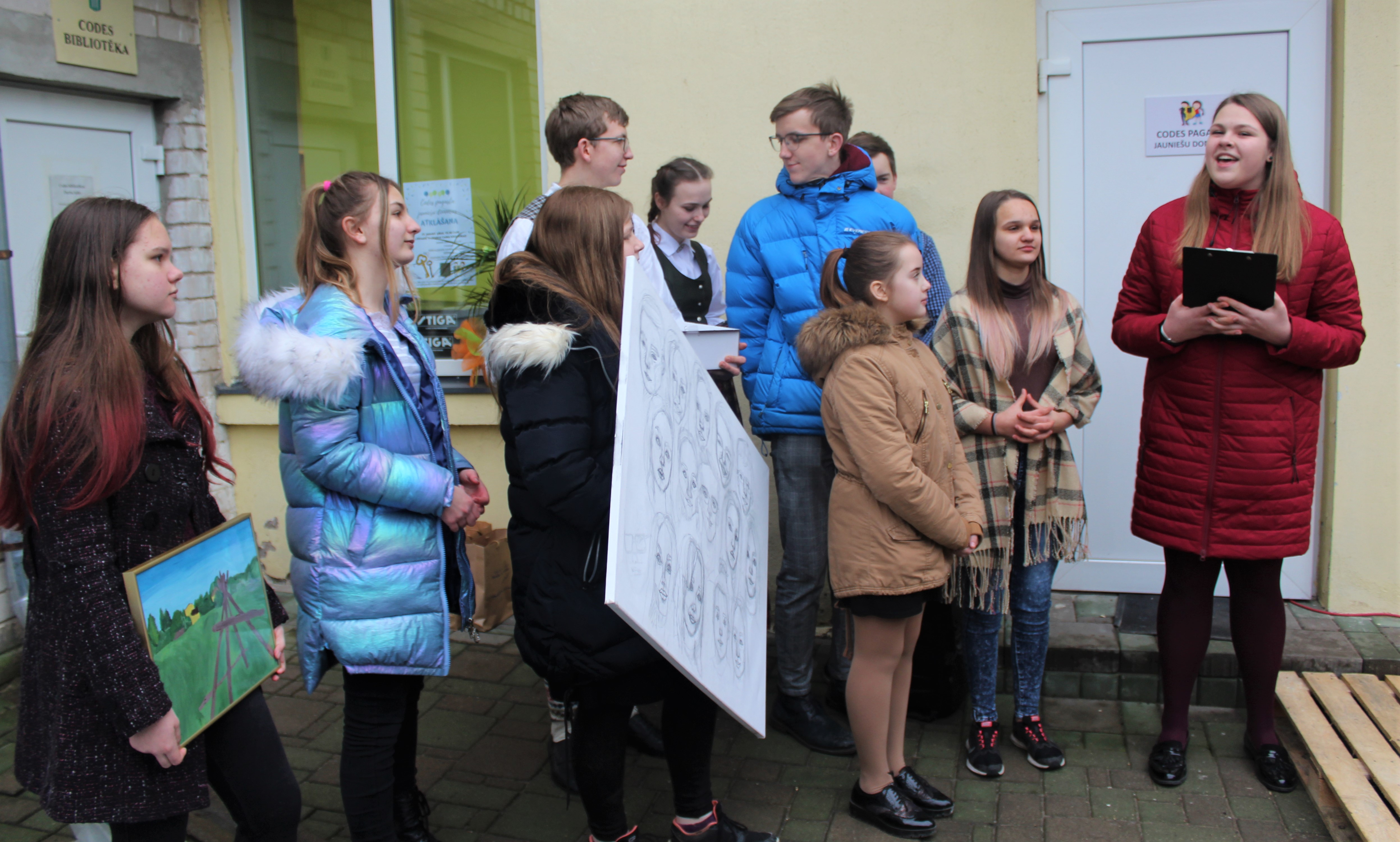 Opening of room for youth people in Code, Latvia 31-01-2020. At picture - juniors from Code parish and nearest places, in blue - the local organizator Kaspars Kalējs.